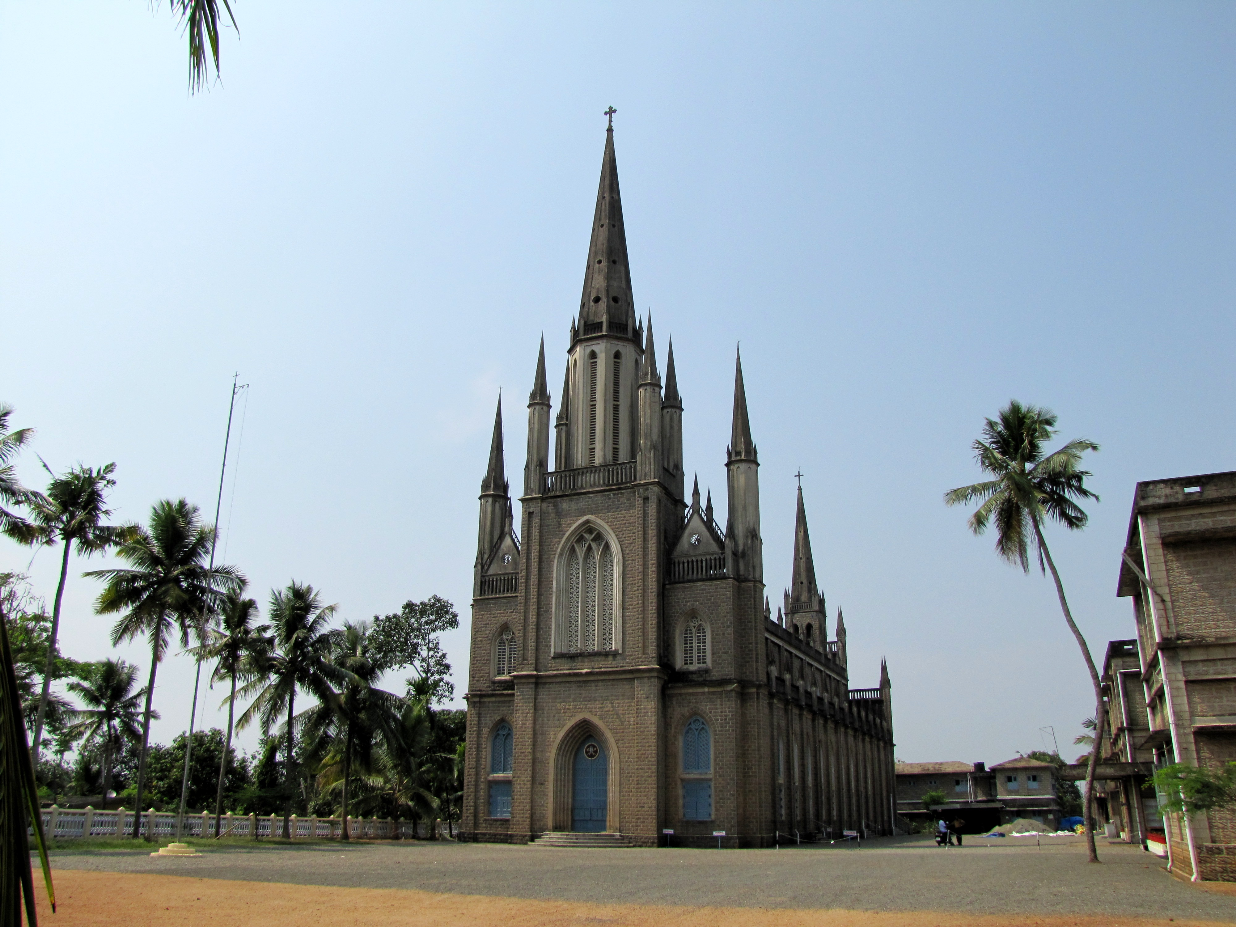 Vimalagiri Cathedral (Immaculate Heart of Mary Cathedral) of Kottayam by Göran